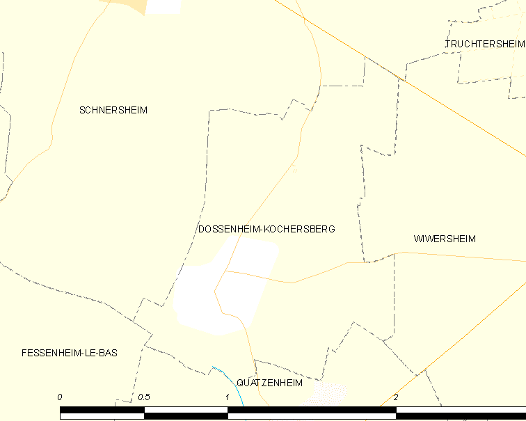 Map of French municipality